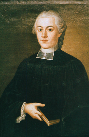 Johann Rudolf Schlegel (* 15. Oktober 1729; † 22. Februar 1790), Heilbronner Rektor und Pfarrer.jpg